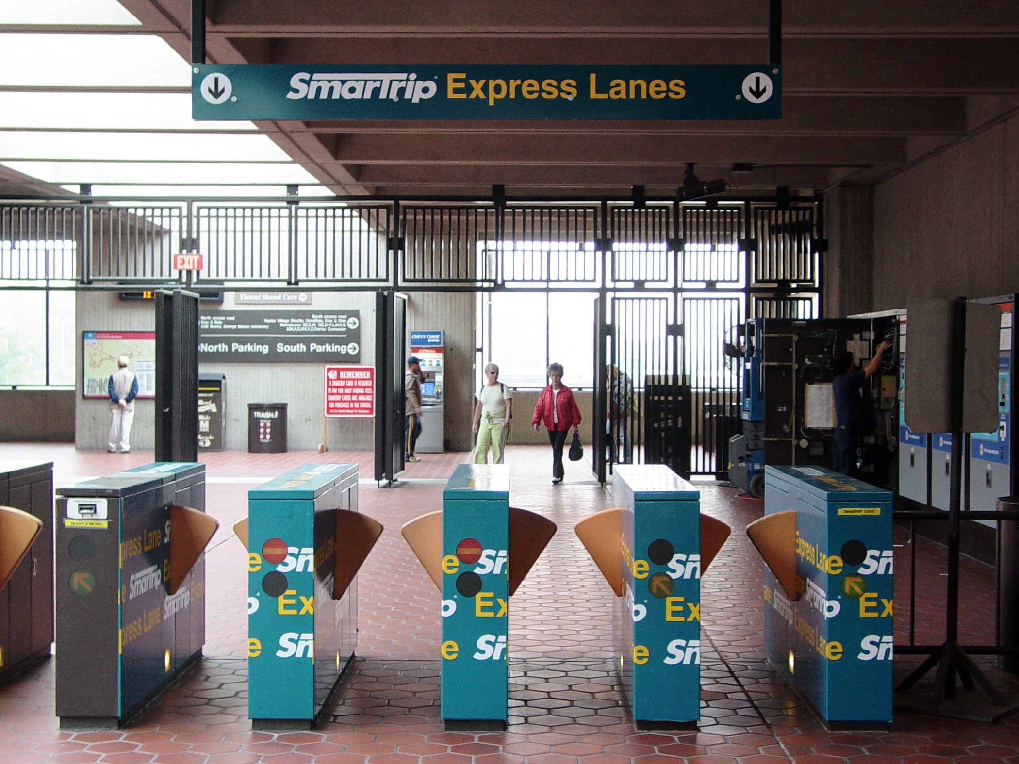 SmarTrip Express Lanes at the Vienna/Fairfax-GMU station in the Washington Metro system.